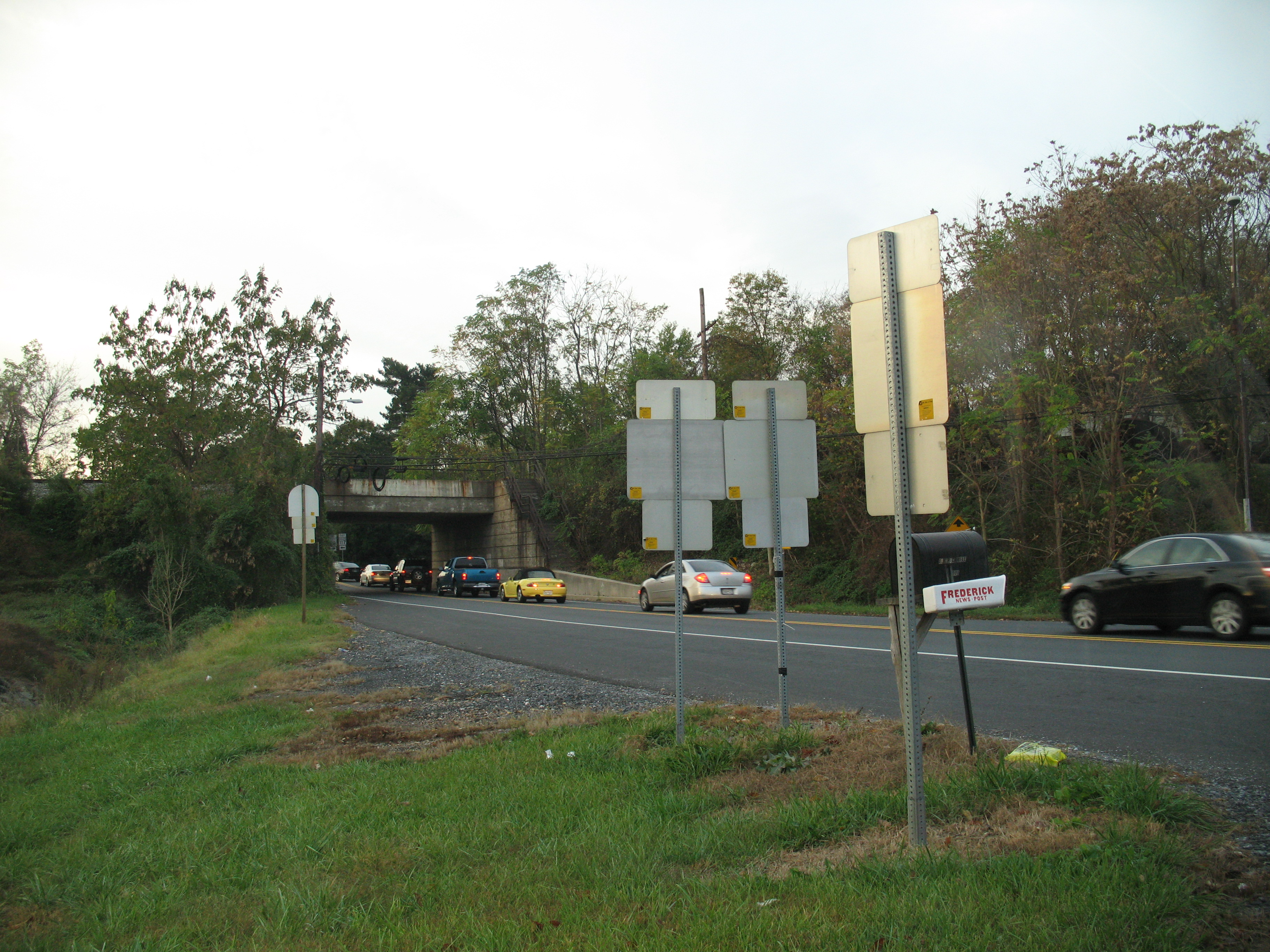 MD 117 (Clarksburg Road) at the CSX bridge (MD 121 terminates at the camera location), Boyds, Maryland, USA - OpenStreetMap(Info)